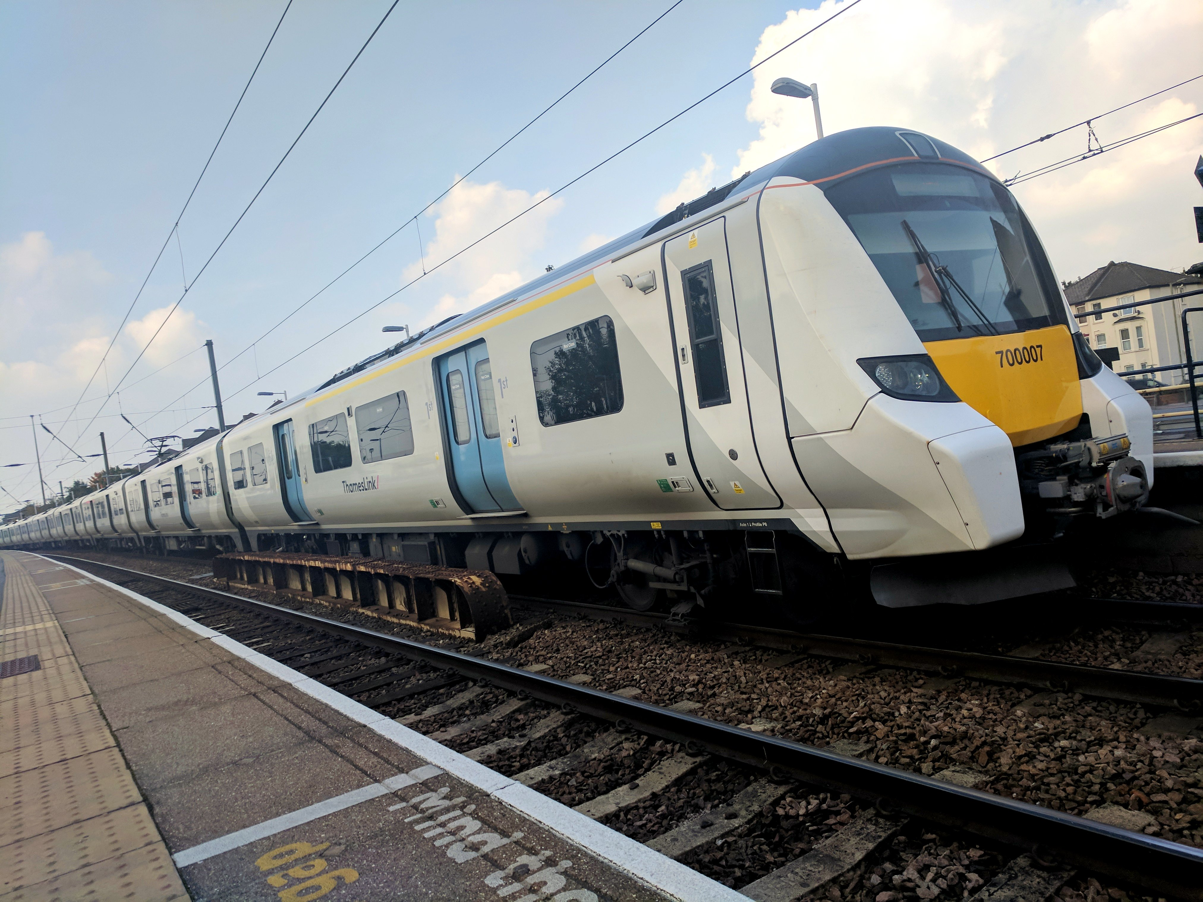 A Thameslink Class 700 unit sits in Cricklewood station.